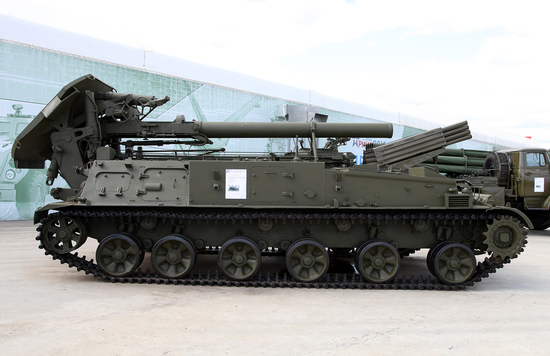 240mm self-propelled mortar 2S4 Tyulpan